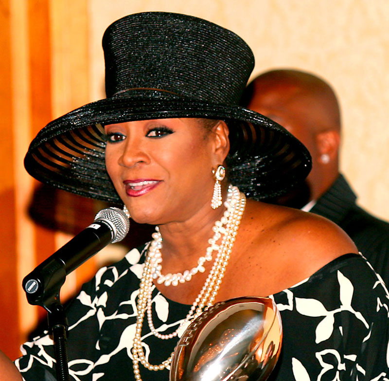 Picture taken 7/21/2005 at the launch of the west coast La Belle Community Football League. Picture taken by George Kline.